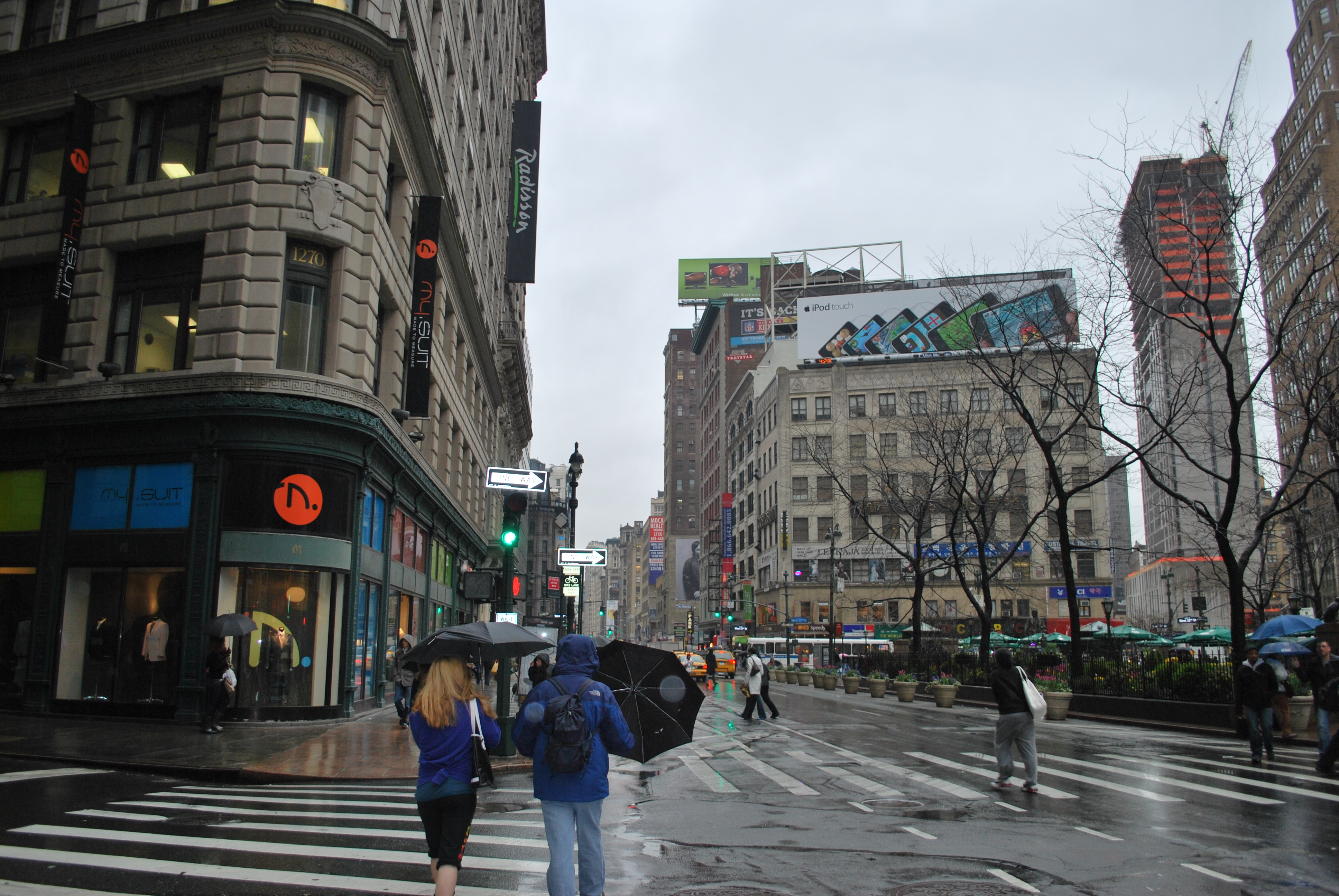 West 33rd St, Coria Town, NY